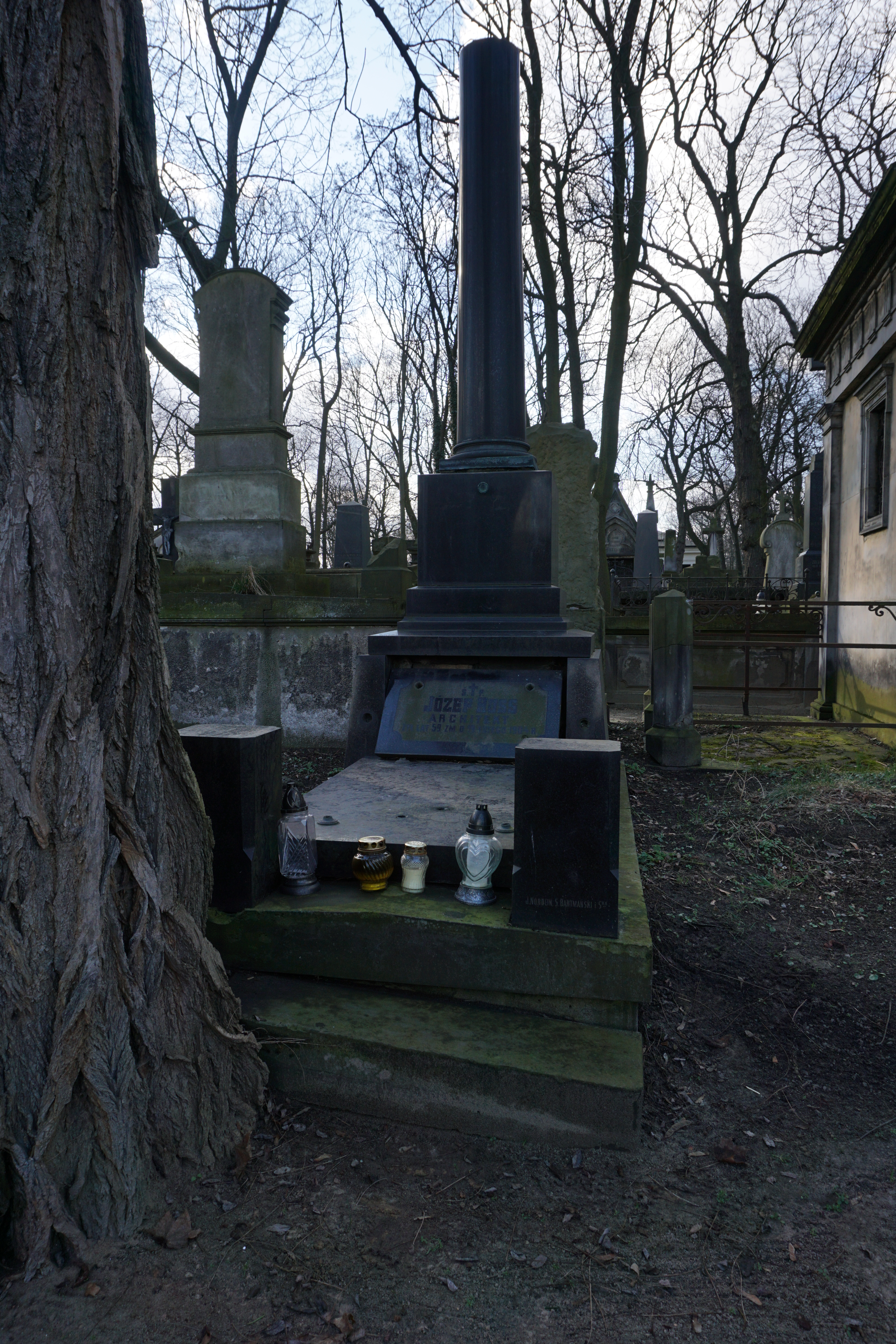 The grave of Józef Huss at the Powązki Cemetery (section 161, row 1, grave 6)